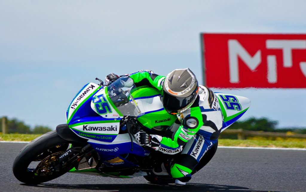 Massimo Roccoli, Lorenzini by Leoni - Kawasaki ZX-6R in 2011 World Supersport Phillip Island round